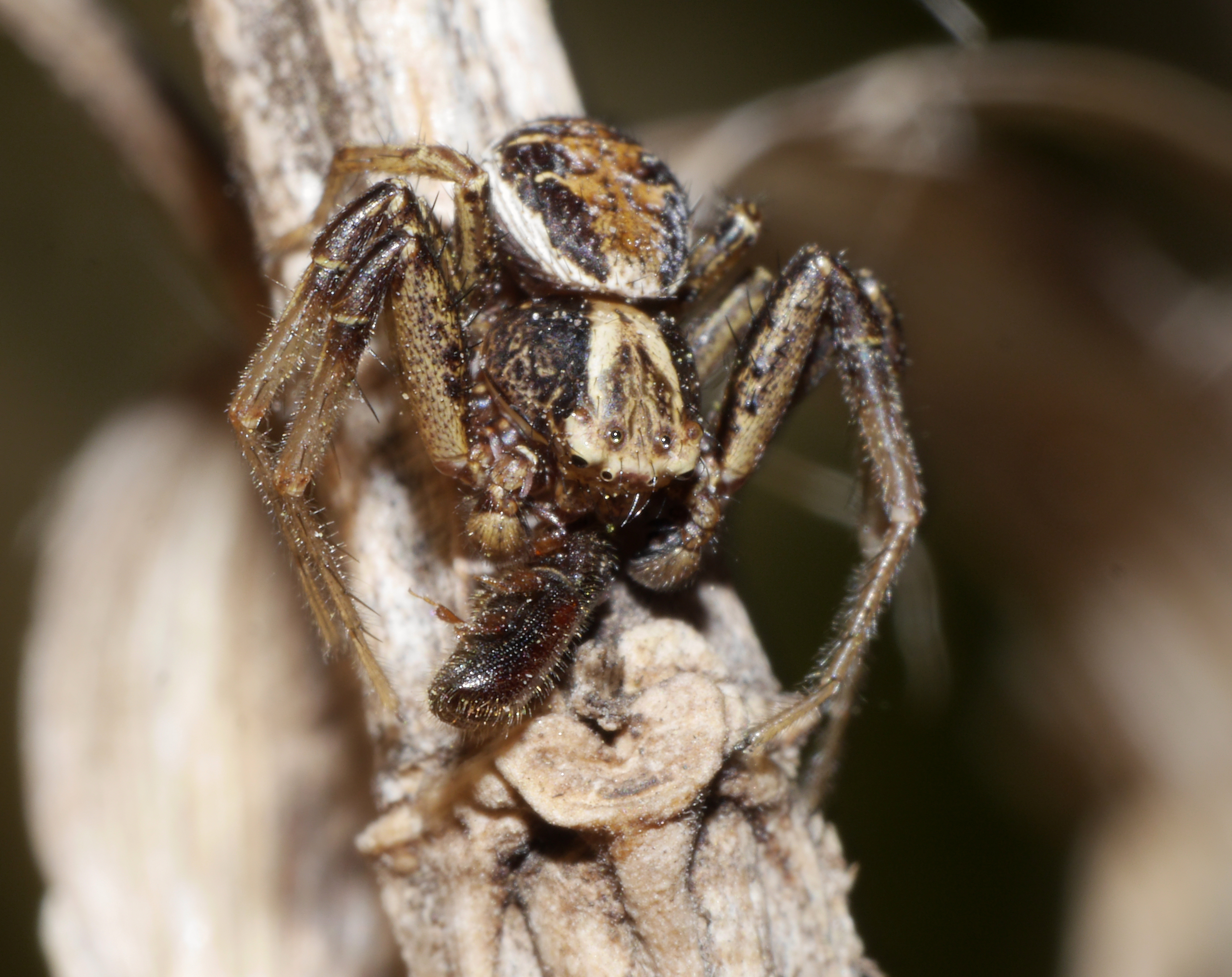 A crap spider - Xysticus cristatus, male. Taken in Mannheim, Kirschgartshäuser Schläge, Baden-Württemberg, Germany.